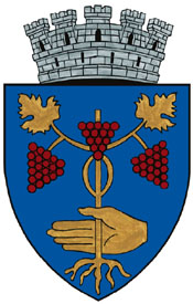 Coat of arms of Mediaș, Sibiu County, Romania.